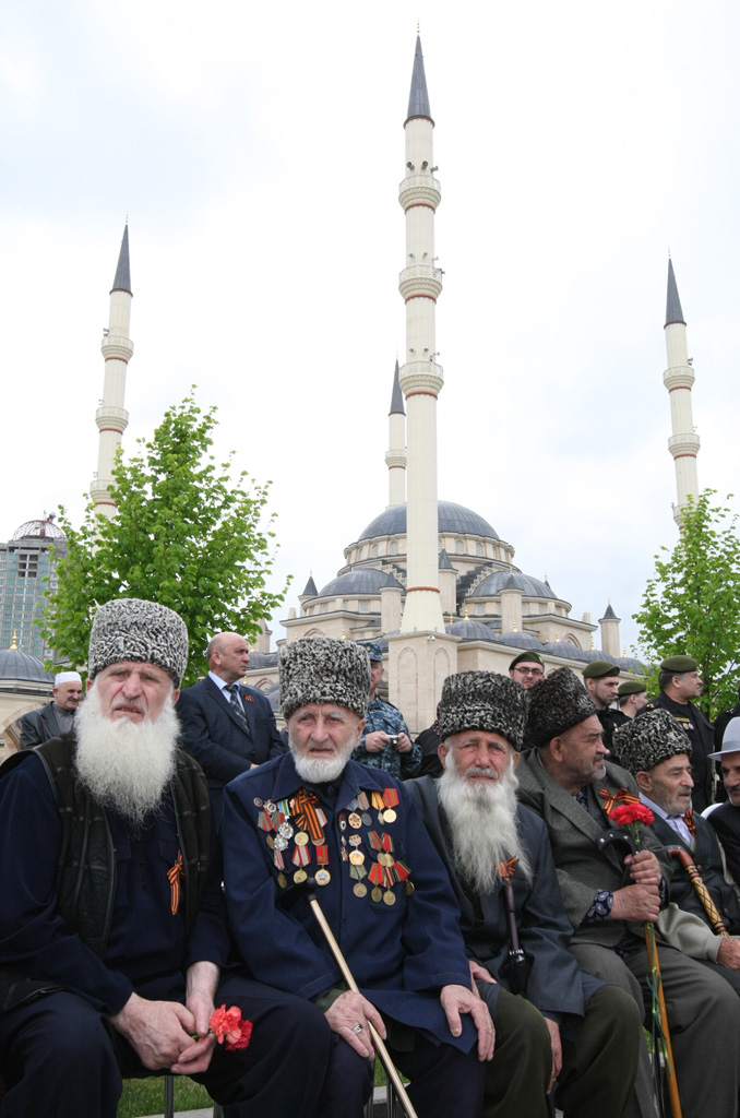 “Victory Day parade in Russian Regions”. Veterans at the VIP tribune during celebrations on the 66th anniversary of Victory in the Great Patriotic War.